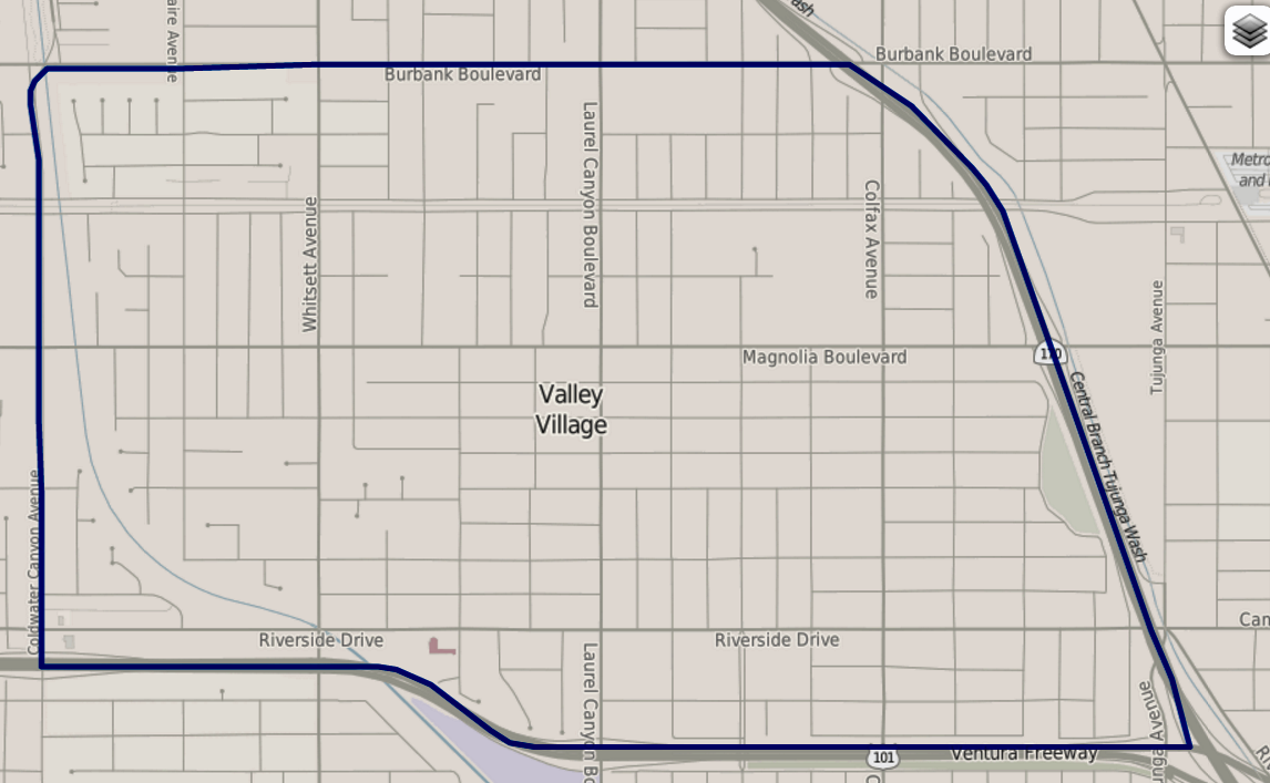 Map of Valley Village, California, as drawn by the Mapping L.A. project of the Los Angeles Times. Other information See CC information lower right corner of the page as posted at Mapping L.A.